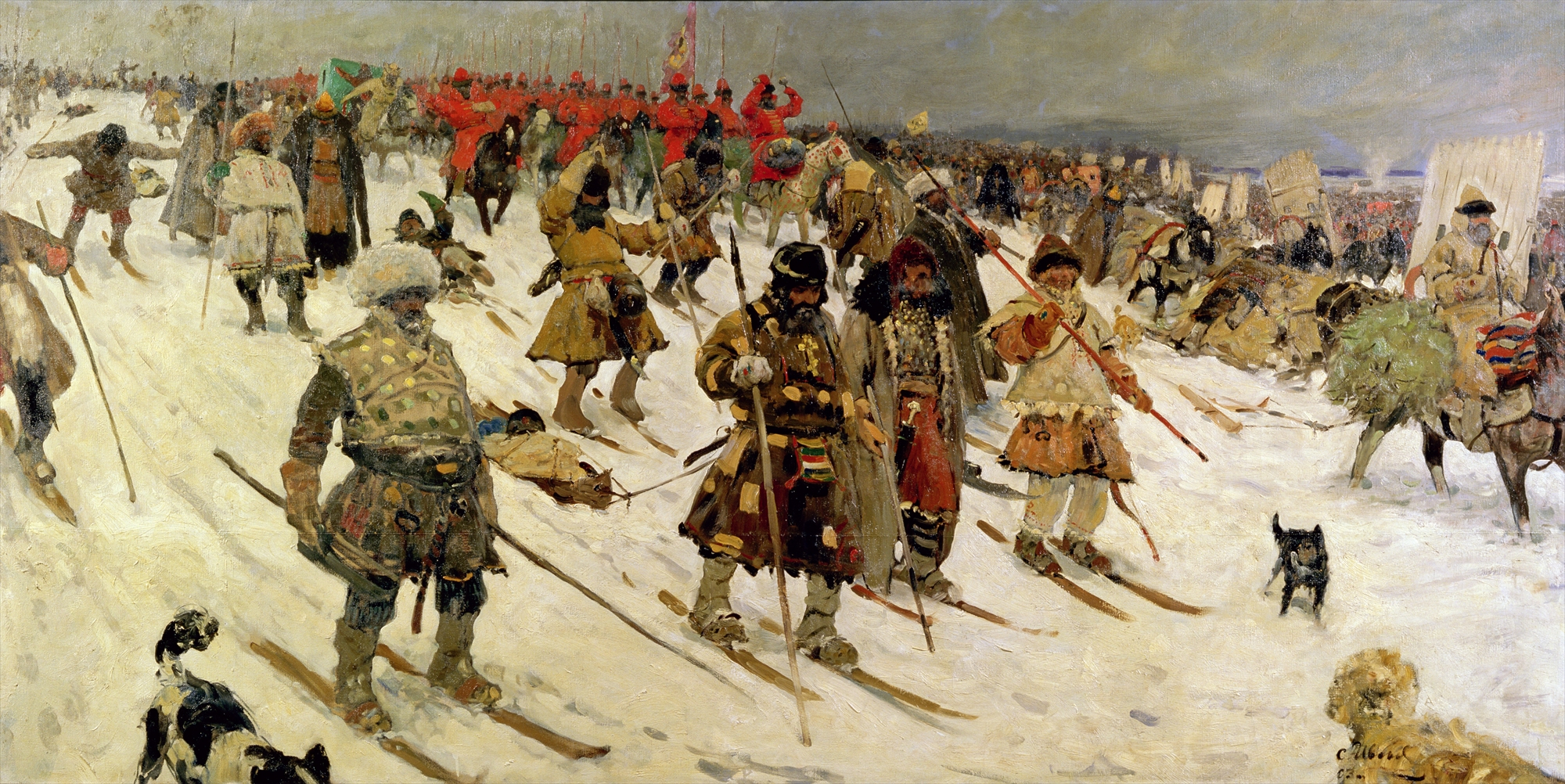 Winter campaign against the Lithuanians.